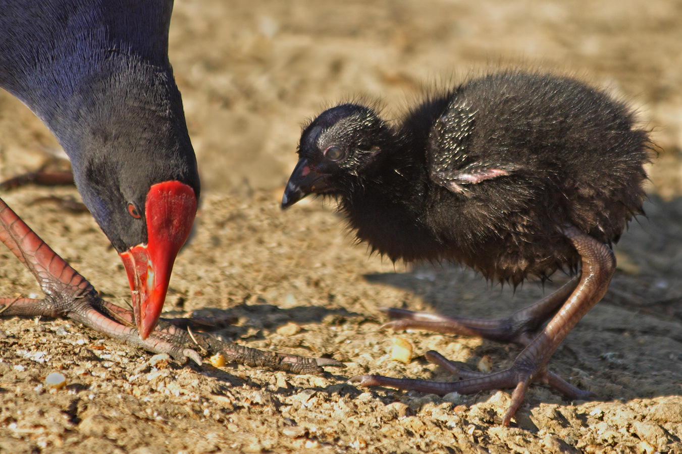 An adult Purple Swamphen with a chick at Blacktown, Western Sydney, New South Wales, Australia.